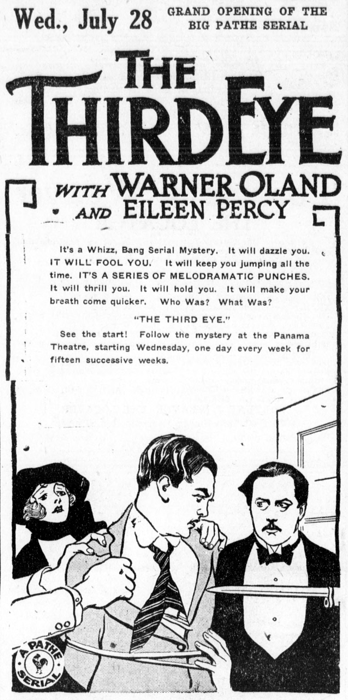 The Third Eye is a 1920 American film serial directed by James W. Horne. This is an advertisement from a newspaper.